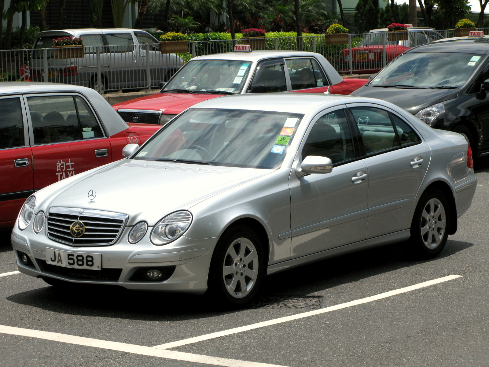 Hong Kong Jockey Club Members Vehicle